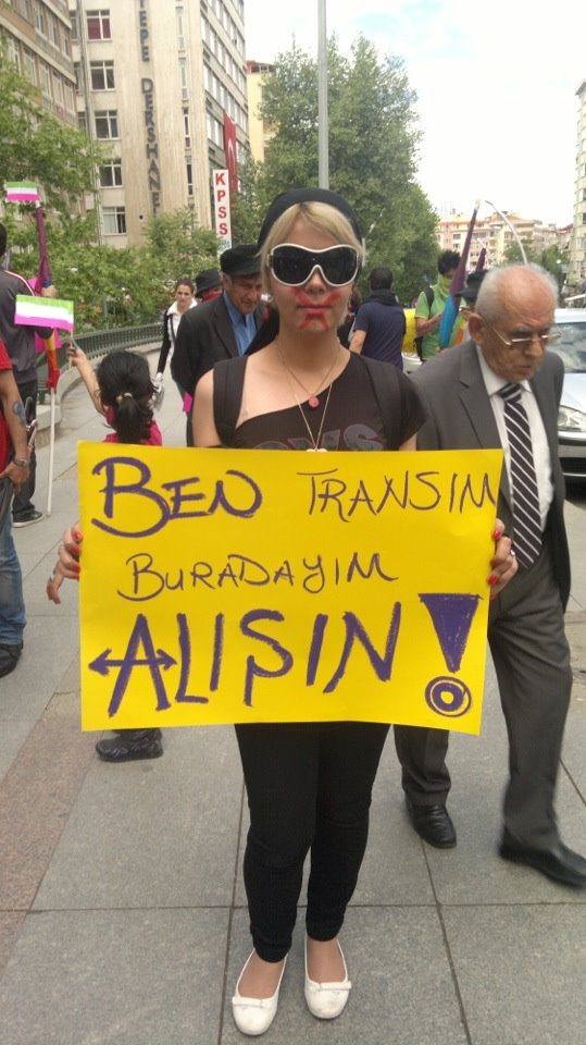 20 May 2012 “Homofobi ve Transfobi Karşıtı Yürüyüş” (Homofobia and Transfobia Square, Ankara.